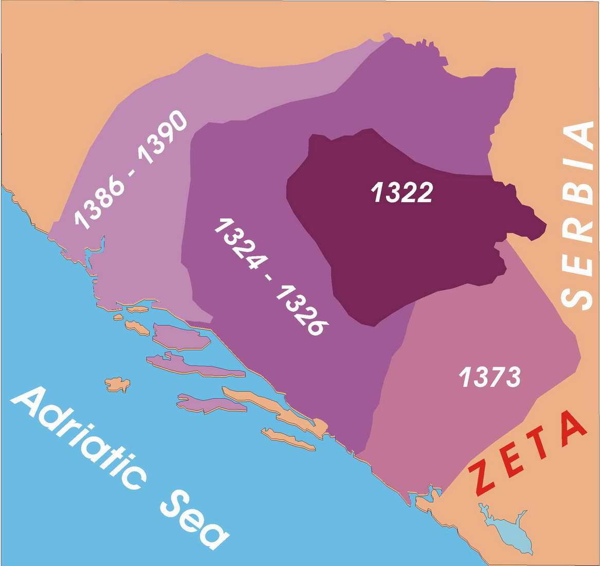 Bosnia in the XIV century.